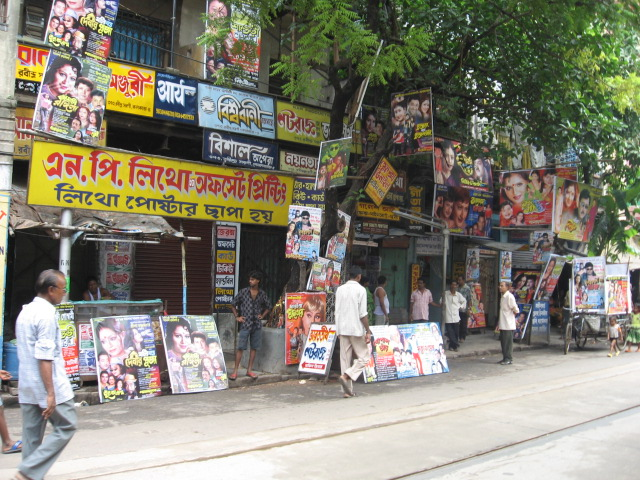 Indian movies board in Bengali language.